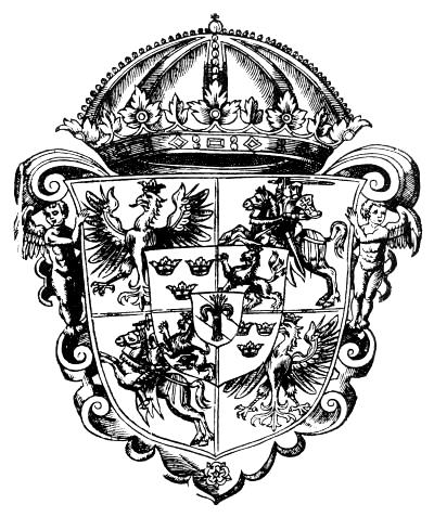 Coat of arms of Poland in 1611